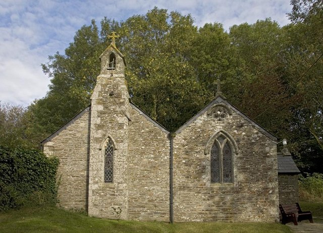 Old Kea church. This is actually the new chapel built next to the old crumbling Old Kea church. The one small bell at top of the left tower (just under the cross) is ringable from inside the church. You can see the bell rope snaking around the side of the tower.